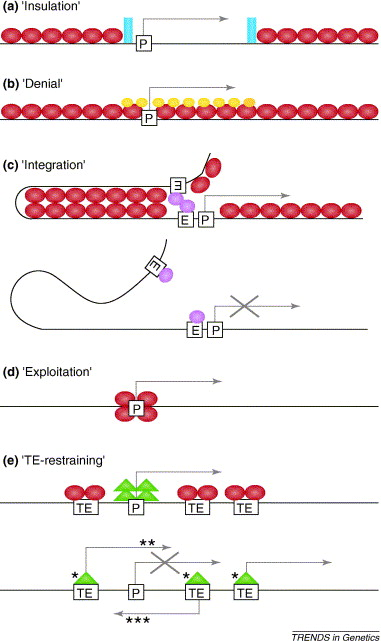 Mechanisms of gene expression in constitutive heterochromatin